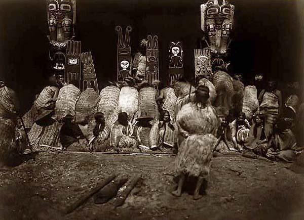 Kwakwaka'wakw people, acting in the Edward Curtis film, "In the Land of the Head Hunters" recreating the Tuxwid (warrior) ceremony [Curtis inaccurately labeled it as the nunhlim ceremony], the four days prior to the Winter Dance (Tseka). The Tuxwid warriors demonstrate supernatural powers granted by Winalagalis/Sisiutl by summoning Dantsikw power boards from underground & returning them. This commemorates Winalagalis' subterranean canoe.